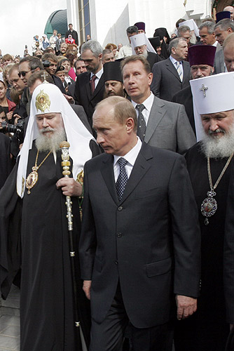 Vladimir Putin in Kaliningrad (2006)